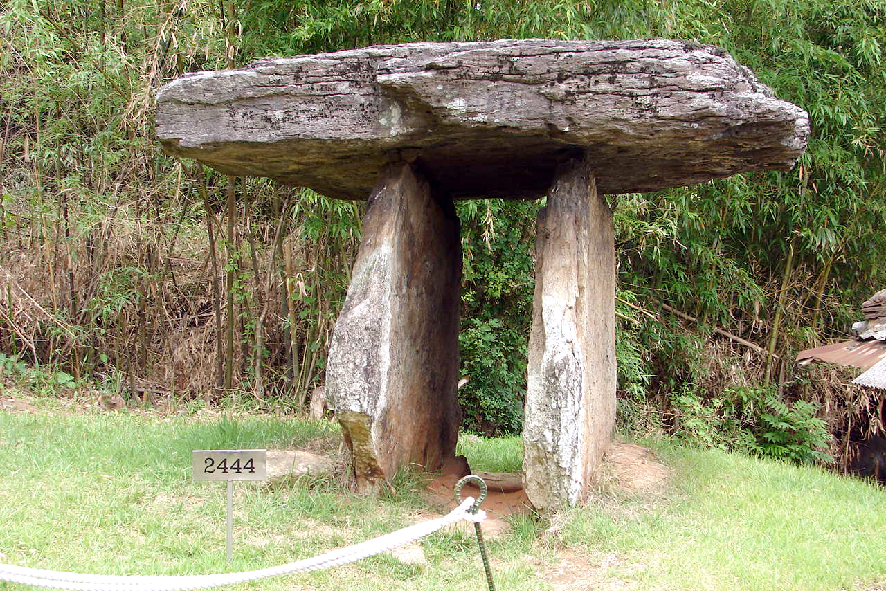 This dolmen is one of the largest dolmens at the Jungnim-ri dolmens and are centered in Maesan village, Gochang County, North Jeolla province.